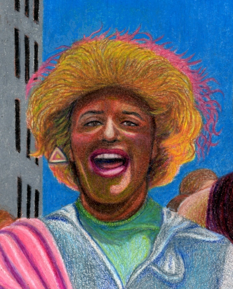 "Marsha, Joseph and Sylvia march down Seventh Avenue in 1973." "I knew Marsha P. Johnson, her boyfriend, Joseph Ratanski, and Sylvia Rivera very well and witnessed this parade in 1973."